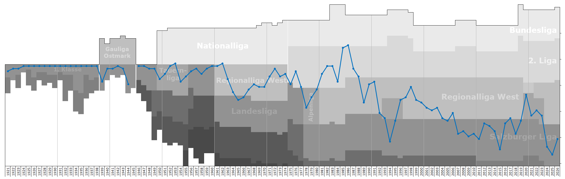 Chart of end-season table positions for Salzburger AK in the Austrian football league system. Data source: RSSSF, , regiowiki.at, sfv.at, wikipedia